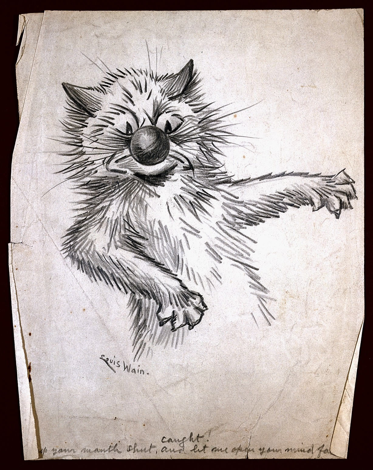 'Caught! Keep your mouth shut and let me open your mind for you'. Archives & Manuscripts Keywords: cmac; cmac: pp/ngh/58; wain, louis {1860-1939}; Louis Wain